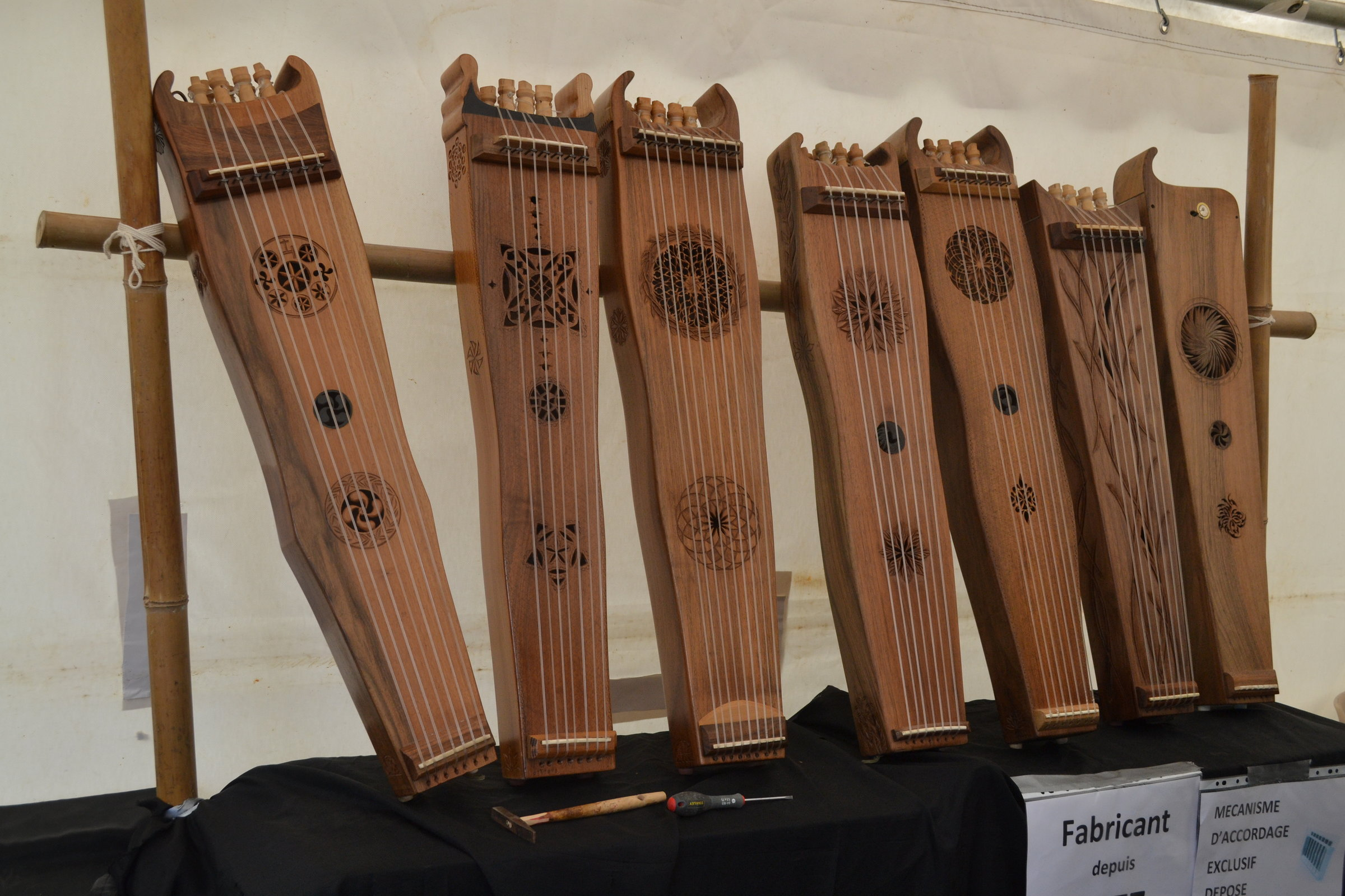 Instrument makers exhibition during Trad'envie 2016.